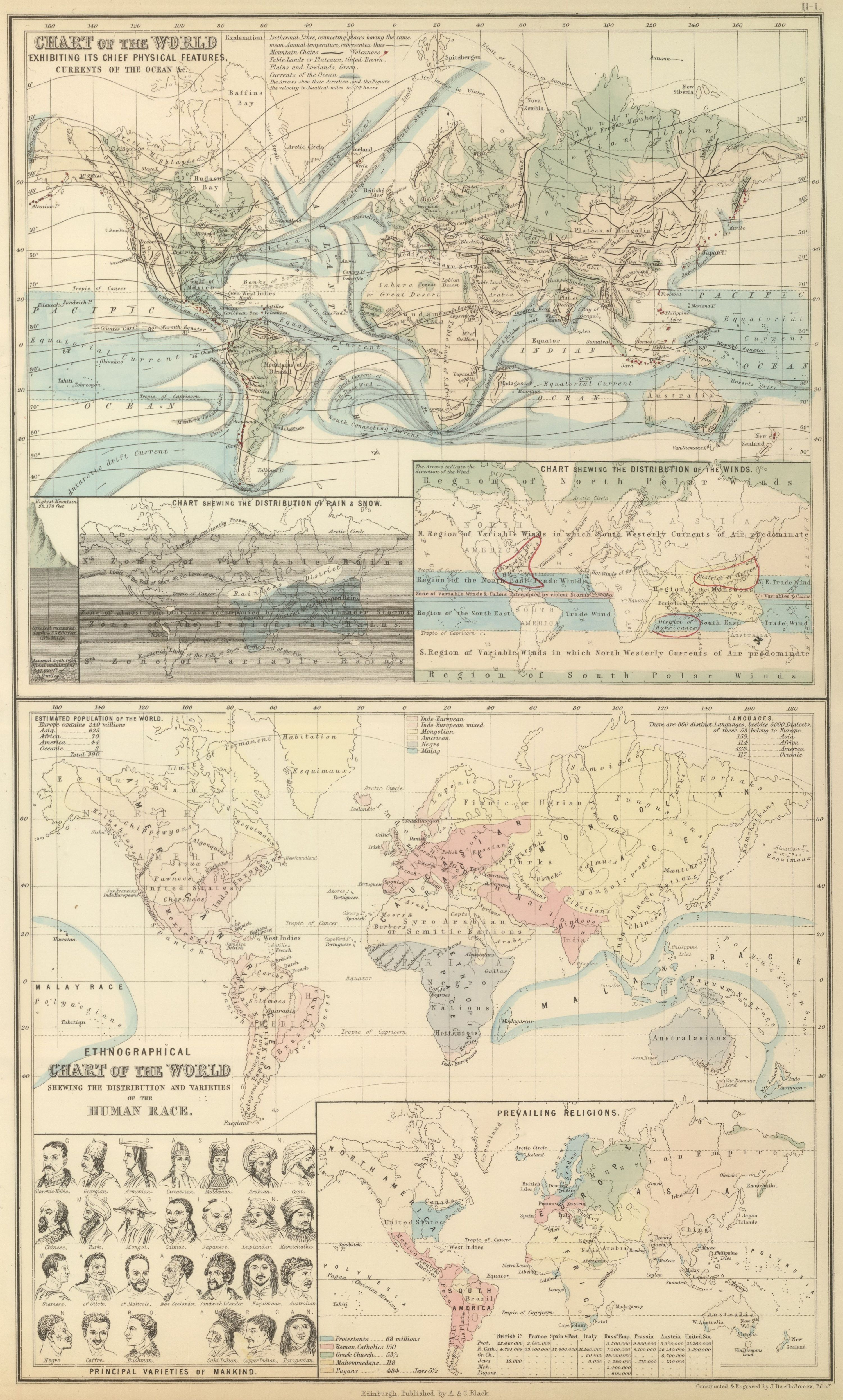 Chart of the World Exhibiting Its Chief Physical Features, Currents of the Ocean &c., Chart Shewing the Distribution of Rain & Snow, Chart Shewing the Distribution of the Winds. and Ethnographic Chart of the World Shewing the Distribution and Varieties of the Human Race. from General Atlas Of The World: Containing Upwards Of Seventy Maps. Engraved On Steel, In The First Style Of Art, By Sidney Hall, William Hughes, F.R.G.S., &c. New Edition. Embracing All The Latest Discoveries Obtained From Government Surveys And Expeditions, Books Of Recent Travel, And Other Sources, Including The North-West Passage Discovered By H.M. Ship Investigator. With Introductory Chapters On The Geography And Statistics Of The Various Countries Of The World, And A Complete Index Of 65,000 Names. Edinburgh: Adam And Charles Black, North Bridge. M.DCCC.LIV. by Adam & Charles Black, Sidney Hall and William Hughes, 1854; published in Edinburgh by A & C Black.